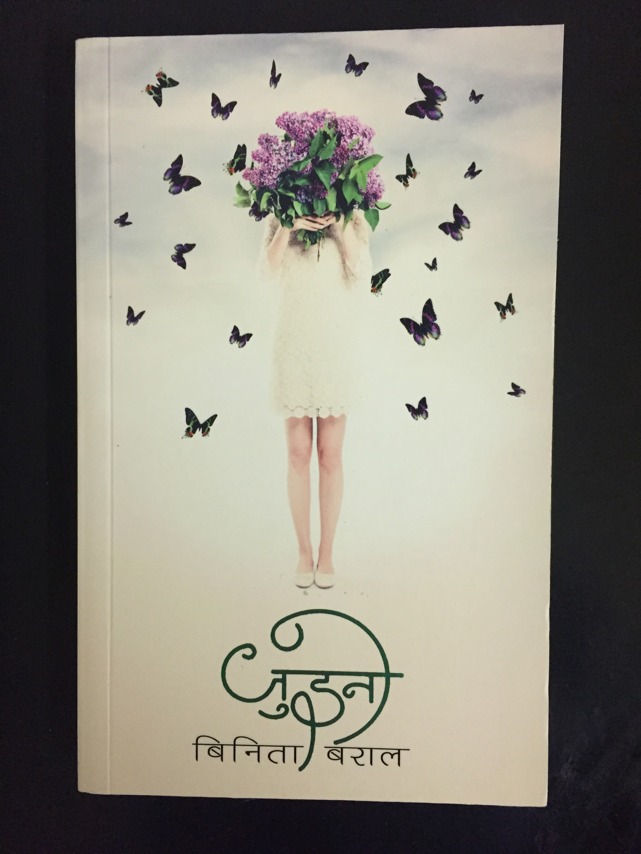 Book cover